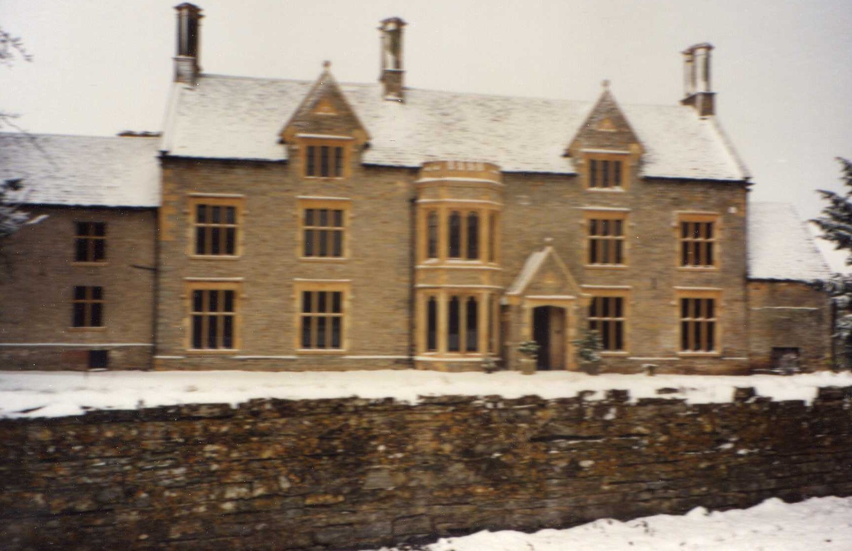 this is my own work taken of Bretforton manor. Bretforton Manor, Main Street, Bretforton, Evesham, Worcestershire. Seen in Father Brown episode "The Sins of the Father" (2016).